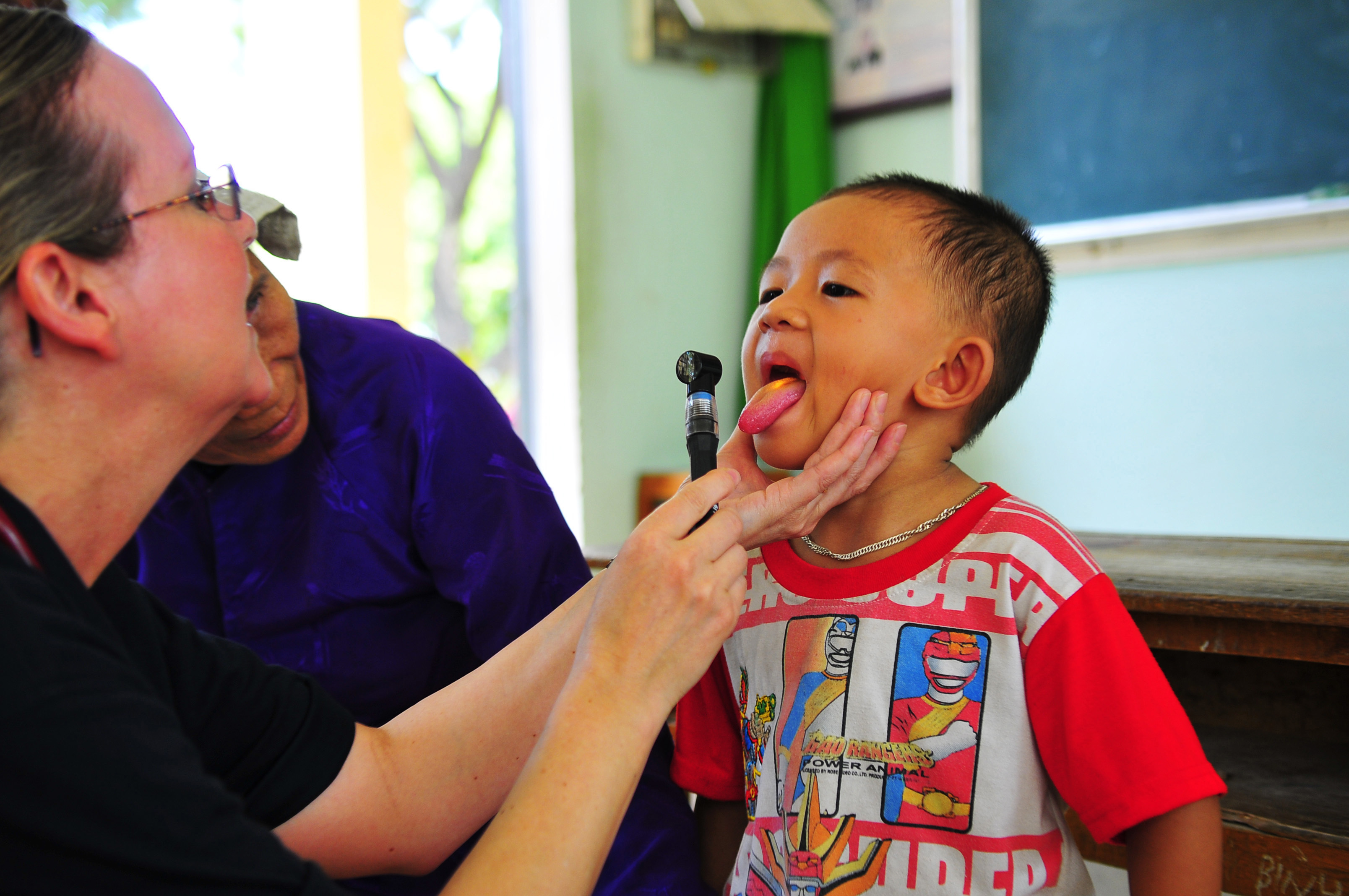 Lt. Cmdr. Laurel Christians, a family nurse practitioner assigned to the Military Sealift Command hospital ship USNS Mercy, examines the mouth of a Vietnamese child during a pediatric evaluation supporting a Pacific Partnership 2010 medical civic action program at the Phuoc Hoa Secondary School. Mercy is in Vietnam conducting the fifth in a series of annual U.S. Pacific Fleet humanitarian and civic assistance endeavors to strengthen regional partnerships.